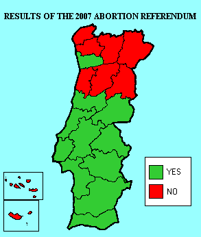 modified from Image:Pt abortion 1998.PNG Category:Abortion maps